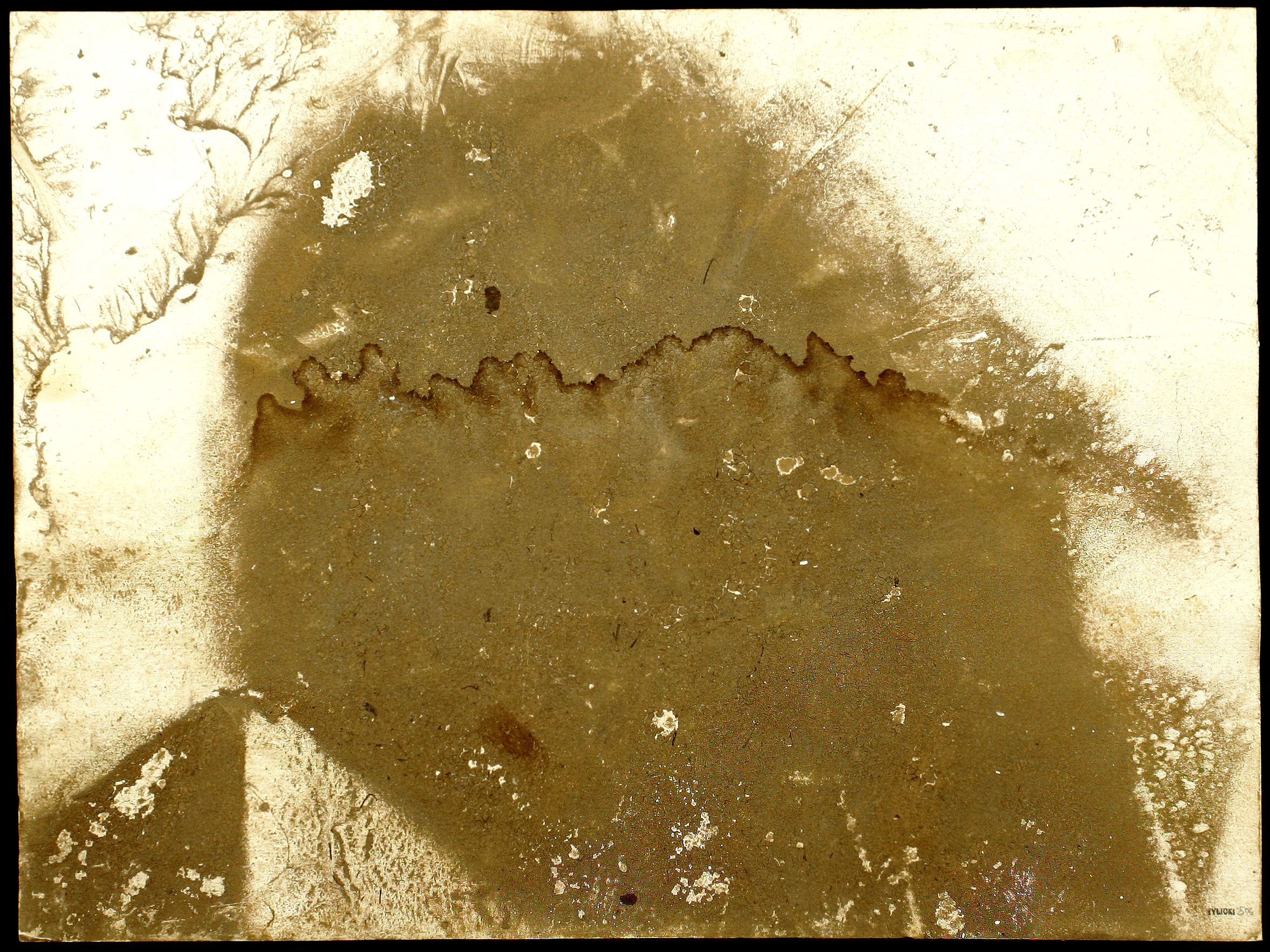 Natural Art Nr. 506. Created by Nature. 4 days in the rushes of the Hoje river. S.W. of Lund. Sweden Size: 473 X 354 mm